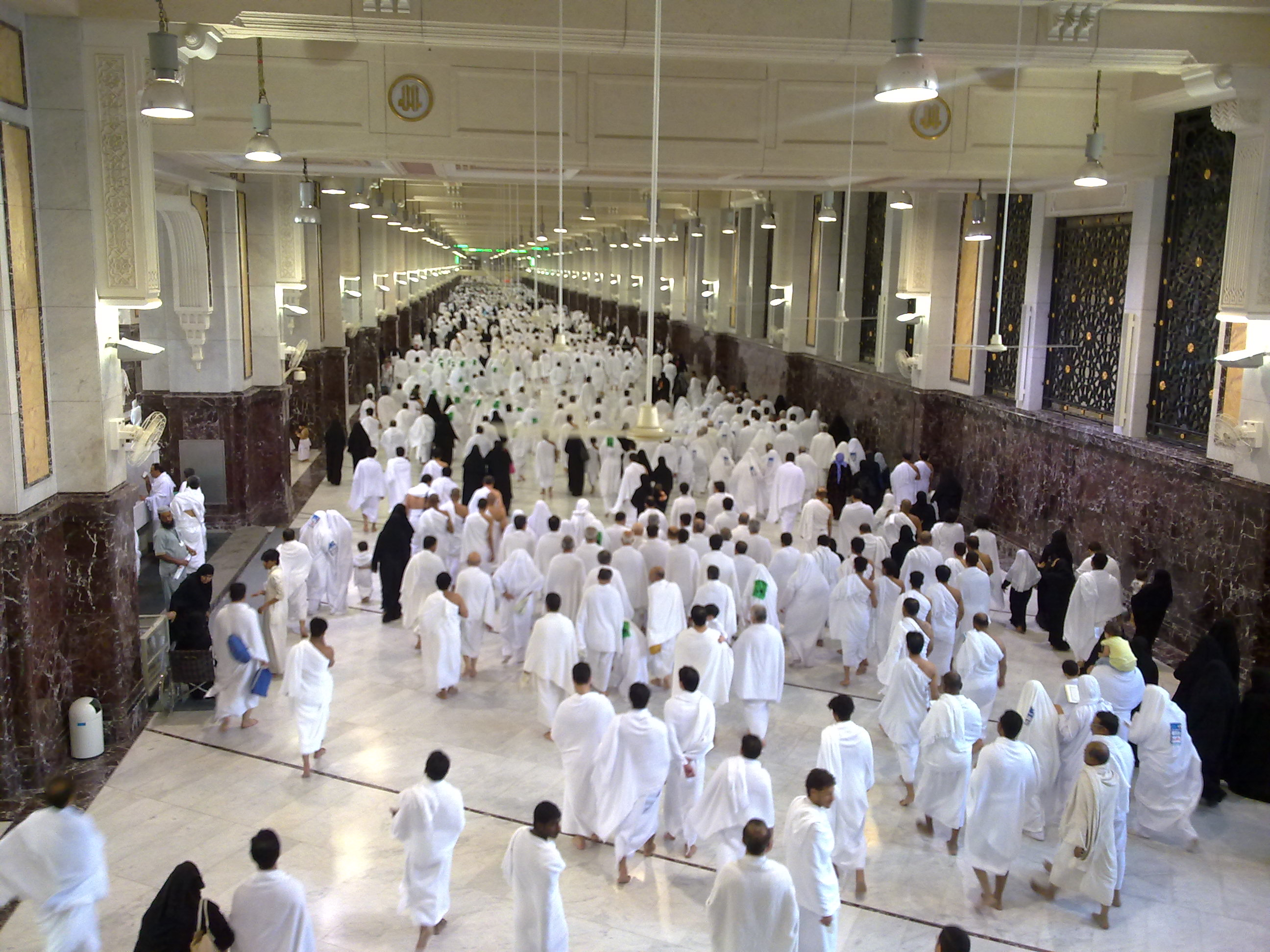 Sa'yee In the case of return from Safa